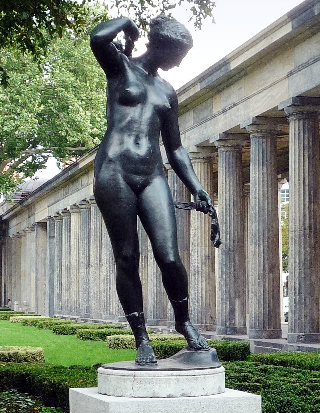 Berlin, Museumsinsel. Sculpture "Diana" by Reinhold Felderhoff (1865-1919).